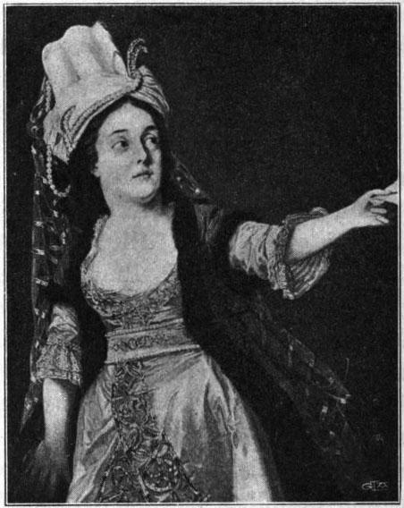 Sophie Hus, French actress who worked also in Sweden and Russia